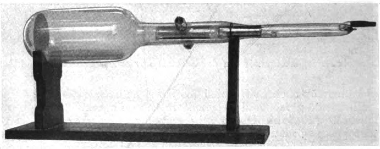 The first cathode ray tube invented by German scientist Ferdinand Braun in 1897. It was a cold cathode tube, developed from the Crookes tube and so did not have a heated filament to produce electrons. Instead it produced electrons by ionization of residual gas in the tube with a high voltage. The tube contains a platinum cathode electrode (right end), an anode electrode consisting of an open tube in the neck to focus the electrons into a narrow beam (center right), a pair of flat deflection plates (center left), and a paper screen (left) painted on the inner side with a fluorescent chemical like zinc sulfide or calcium tungstate. When a high voltage is applied between the cathode and anode, it creates positive ions which are attracted to the negative cathode. When they strike the cathode they knock out electrons (cathode rays) which are accelerated down the tube to the left, through the anode tube, between the deflection plates, and strike the fluorescent screen at the left end, producing a glowing spot. If a second voltage is applied between the deflection plates the electron beam will be repelled by the positive plate and attracted toward the negative plate, so the spot on the end screen will move toward the positive plate. The small curved side tube attached to the neck (right) is called a "softener". The residual air in the tube, necessary for ionization, tended to be absorbed by the walls over time, making the vacuum "harder", so the tube would eventually stop functioning. The softener tube contained a pellet of chemical that would release gas when heated. If the tube stopped producing cathode rays, a flame would be played over the softener tube, releasing gas to "soften" the vacuum so it would work again.